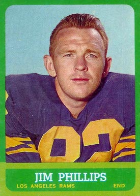 NFL player Jim Phillips portrayed on a 1963 Topps football trading card